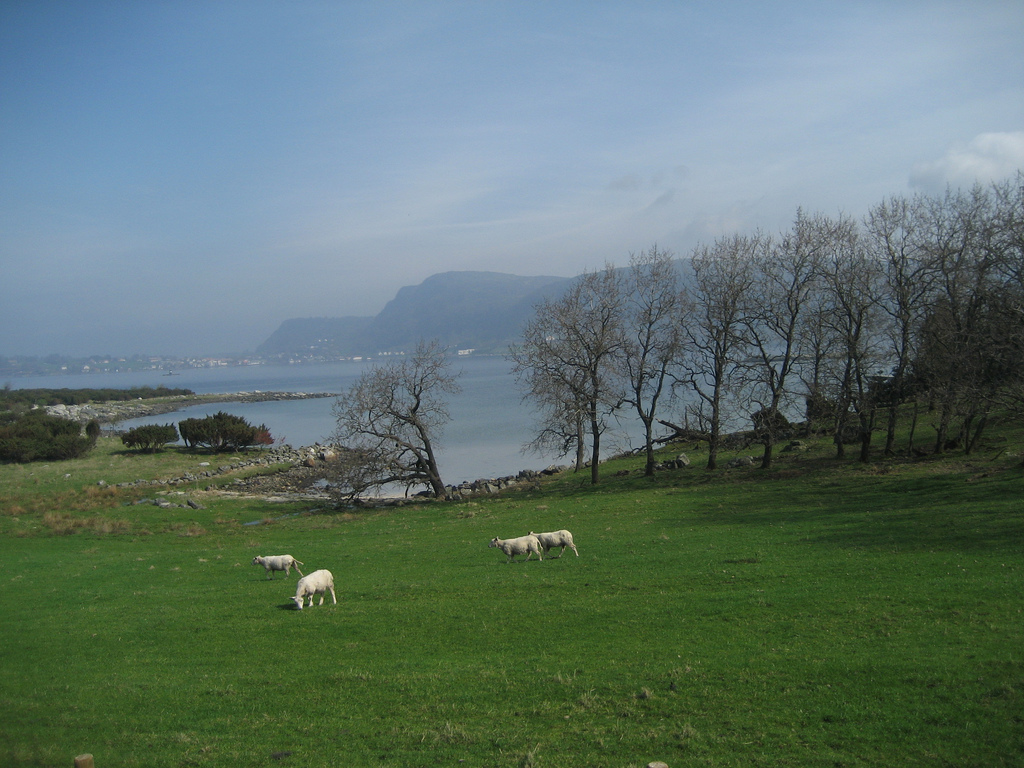 Pastoral landscape at Askje, Mosterøy, with view to Rennesøy, Rogaland, Norway.